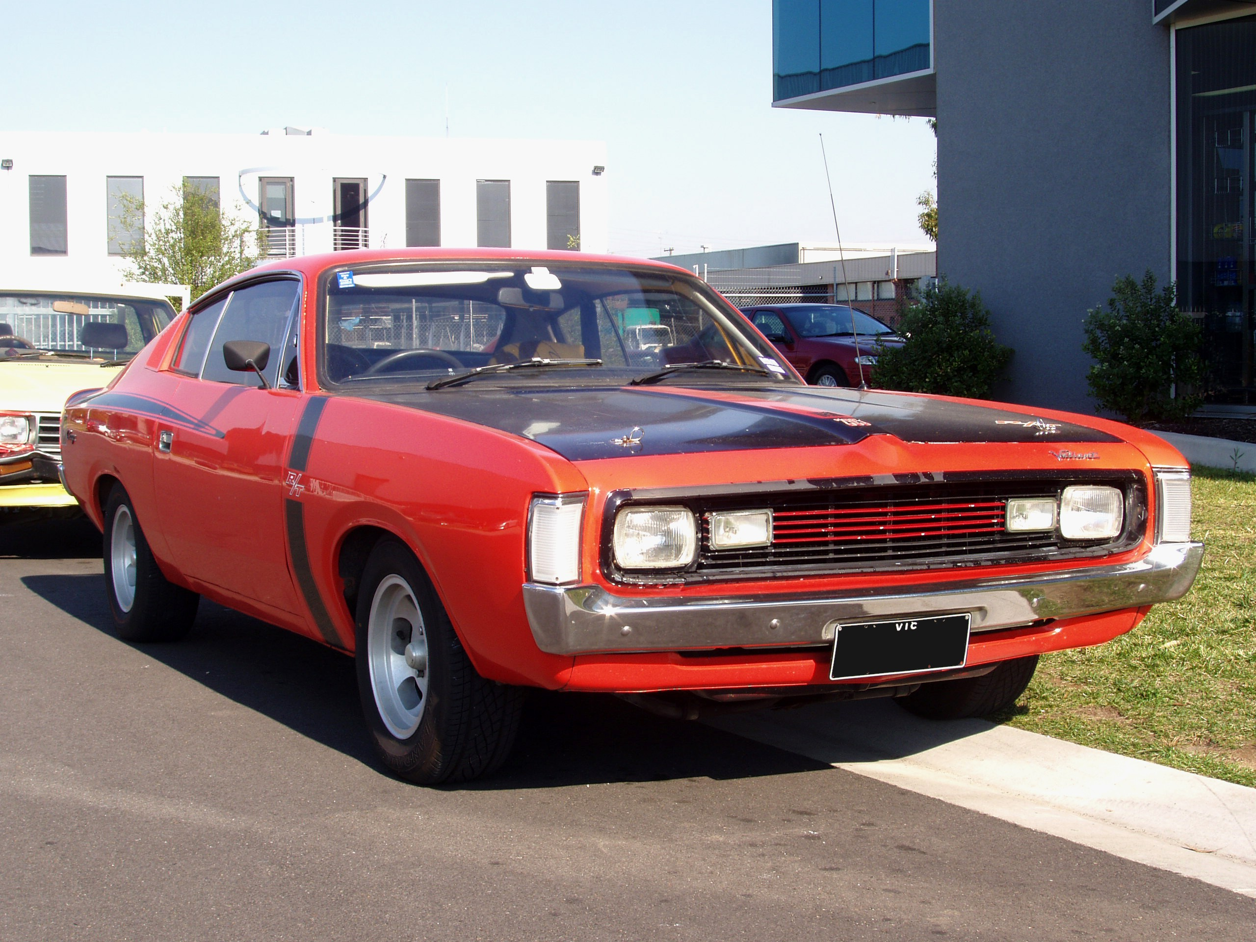 One of the classic Aussie muscle cars, and still a gorgeous-looking vehicle.